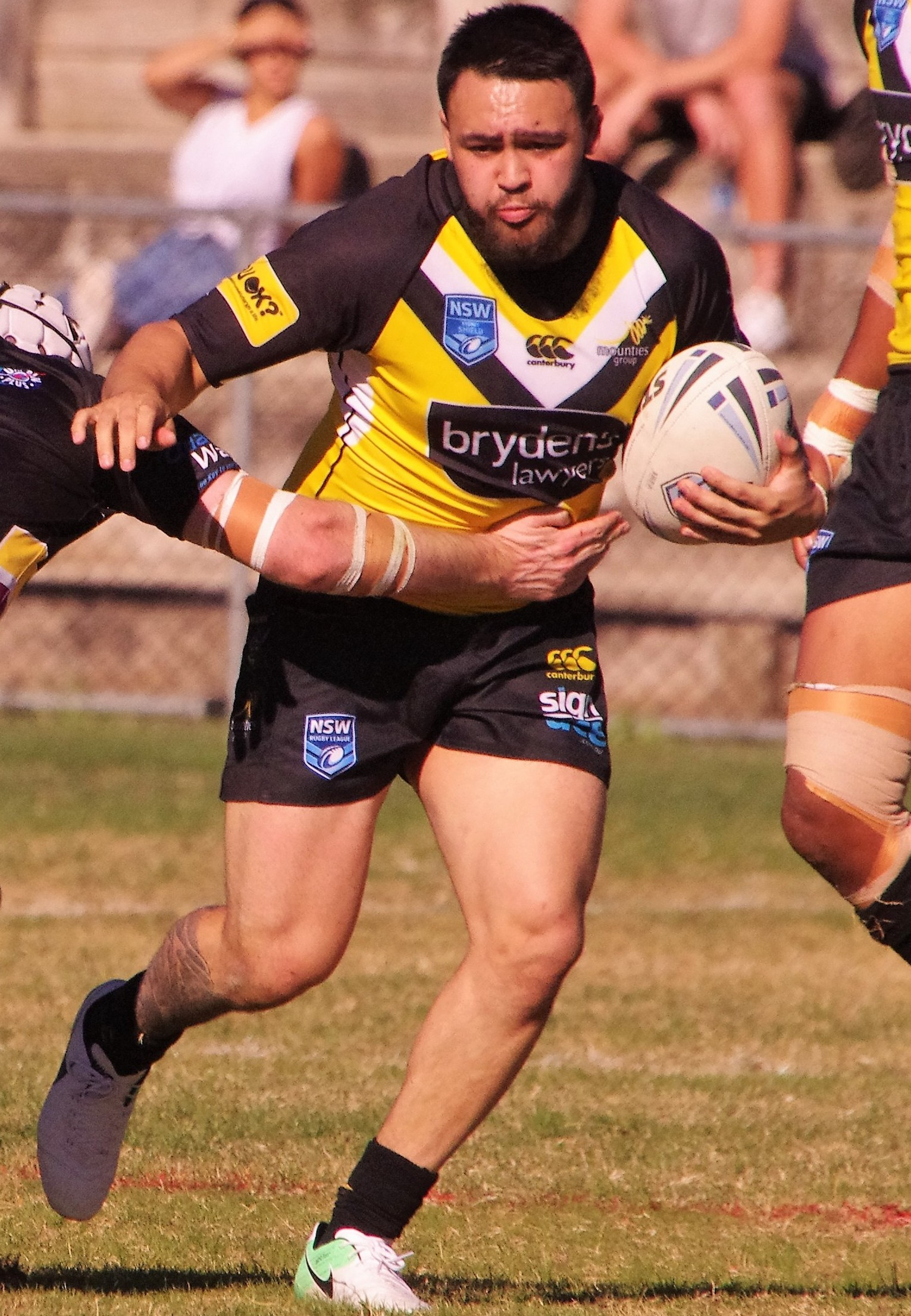 Corey Makelim